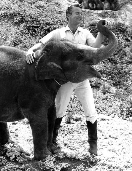 Publicity photo of Bill Burrud and a baby elephant from the television program Animal Kingdom.